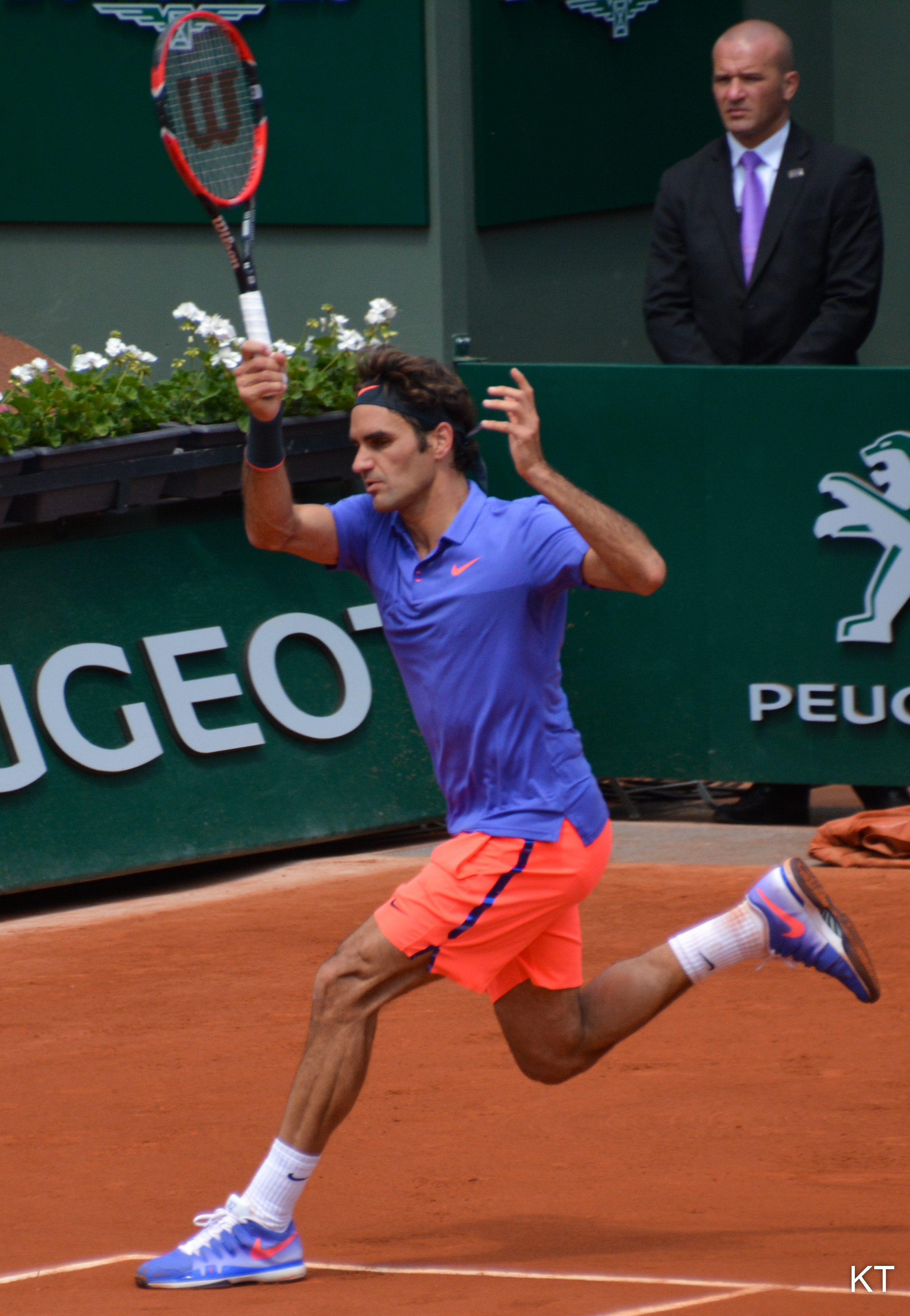 Roger Federer during his 2nd round match with Marcel Granollers. Federer won 6-2, 7-6, 6-3 Day 4 of Roland Garros 2015.